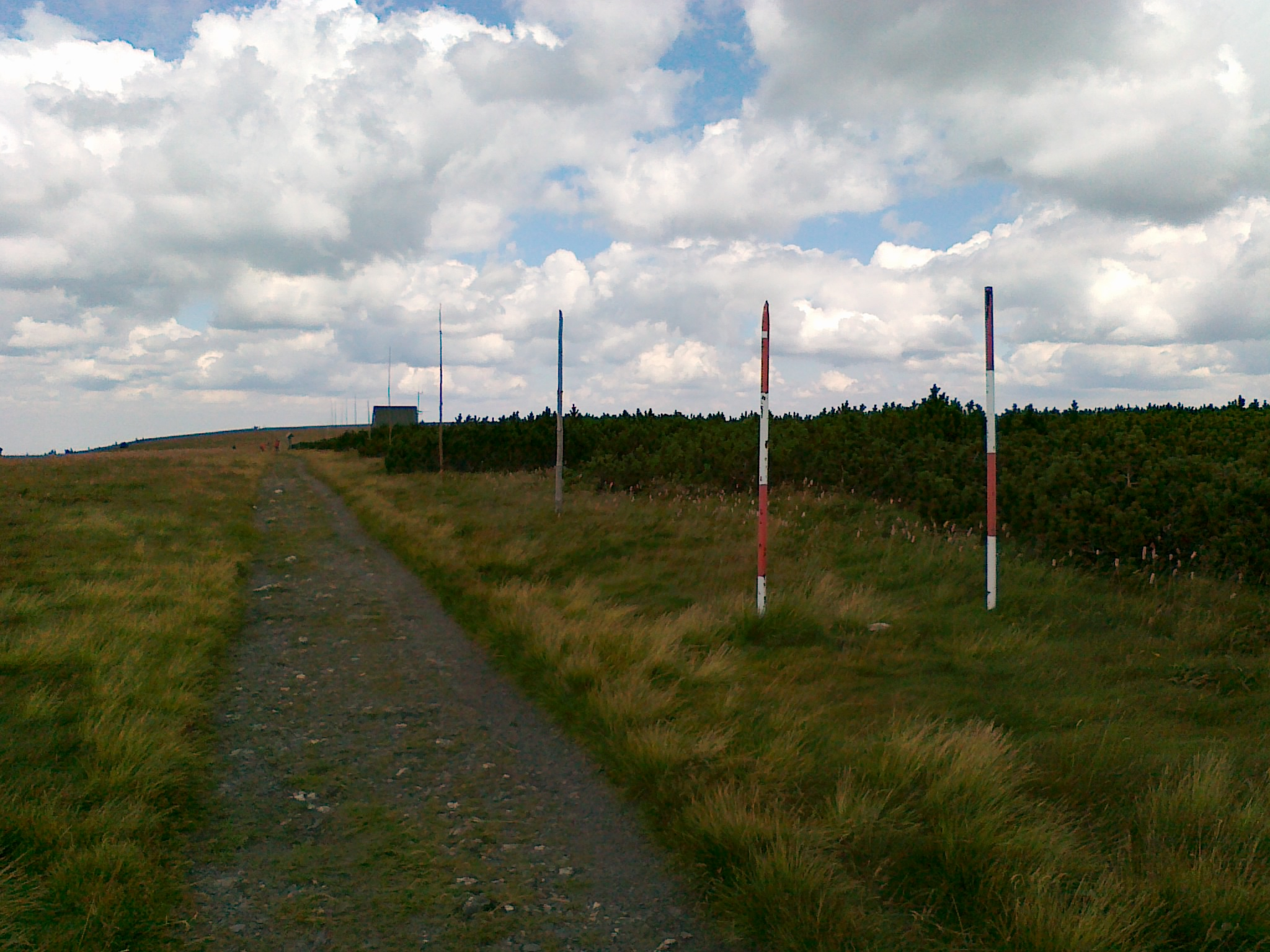 Peak of Vysoká hole - 1465 m